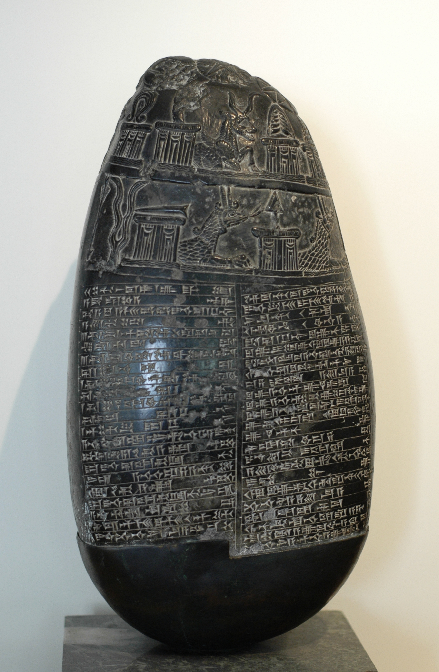 Babylonian kudurru of the Kassite Period, known as the "Michaux Stone". The stele bears an inscription (a property charter) in Akkadian script. Black serpentine, from the reign of Marduk-nadin-akhi (ca. 1099–1082 BC), found near Baghdad in 1784 by the French botanist Michaux, hence the name.